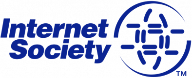 Internet Society logo and wordmark.